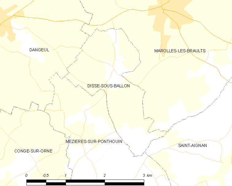 Map of French municipality